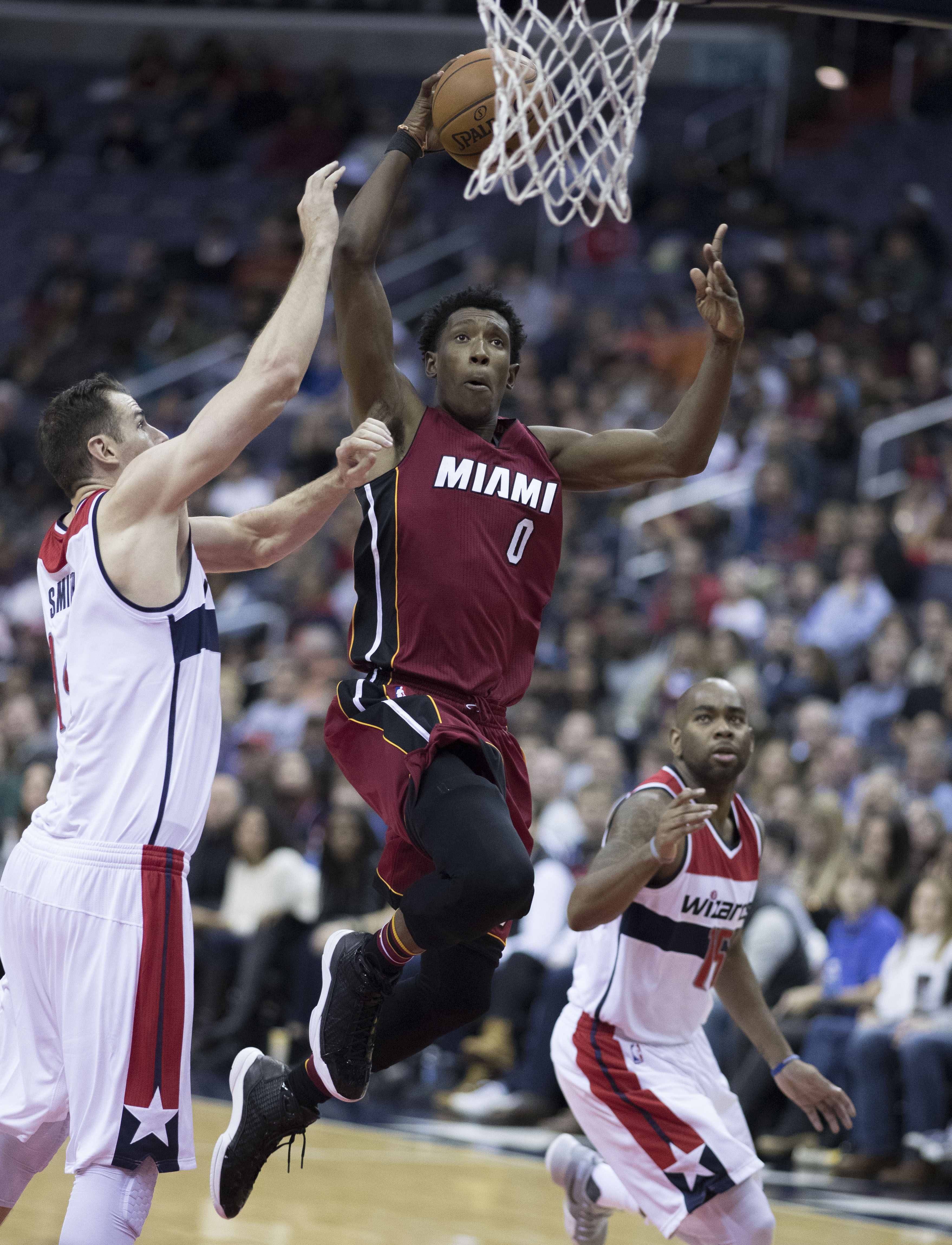 Heat at Wizards 11/19/16